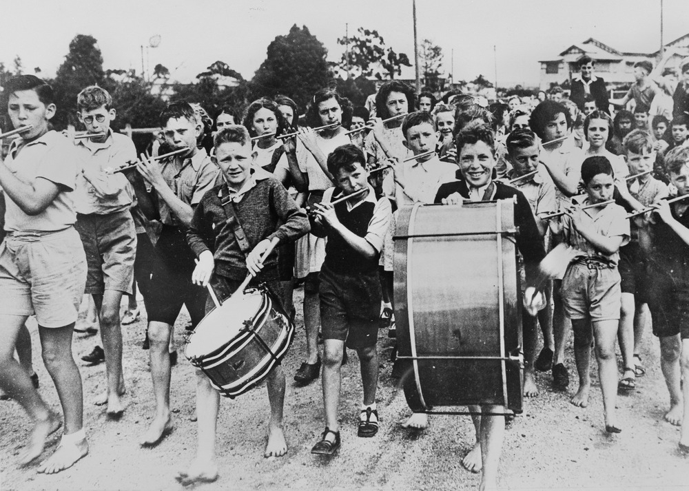 Creator: Unidentified Location: Moorooka, Brisbane View this image at the State Library of Queensland: Information about State Library of Queensland’s collection